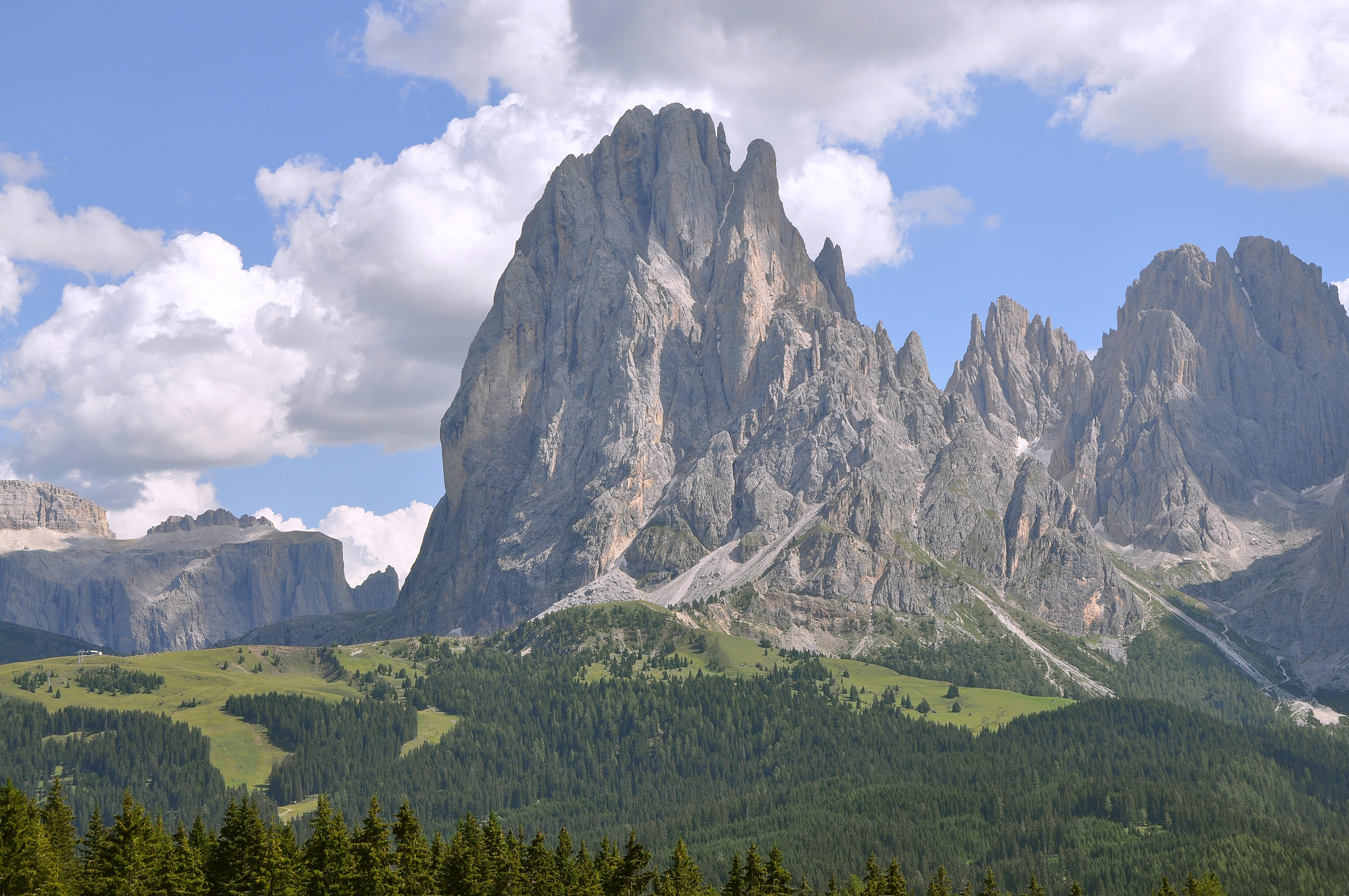 The Saslong peak in Val Gardena, South Tyrol.